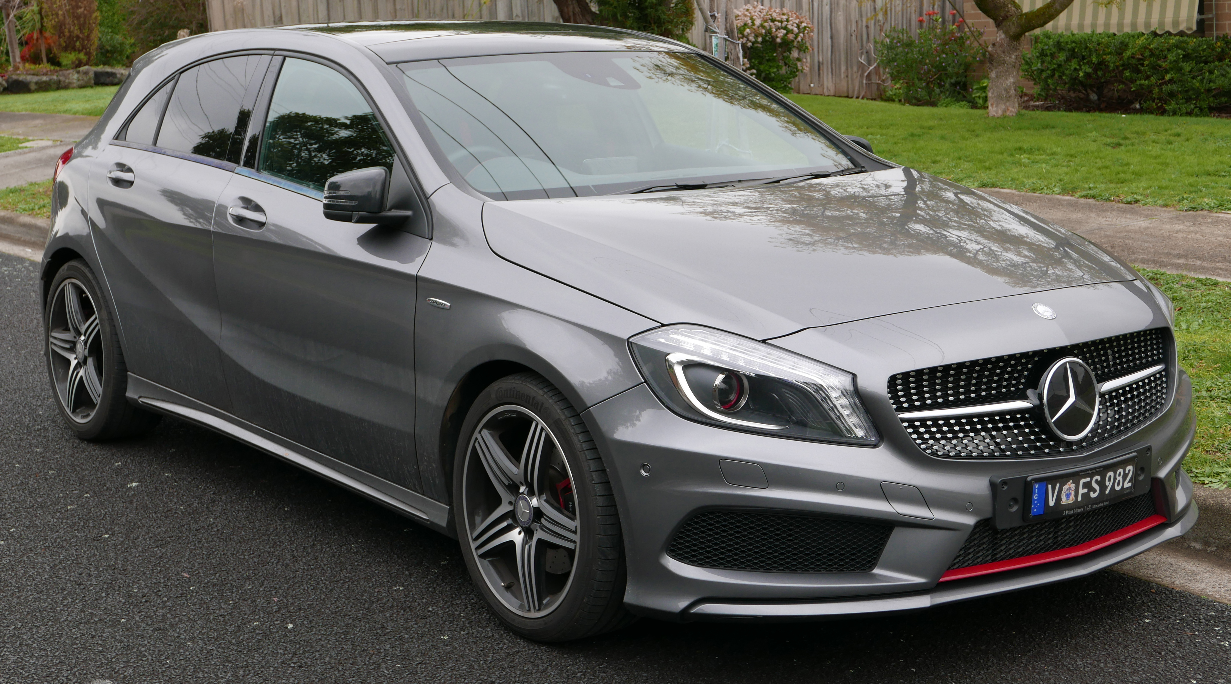 2014 Mercedes-Benz A 250 (W 176) Sport hatchback. Photographed in Doncaster, Victoria, Australia. Vehicle registration enquiry results Jurisdiction Victoria Registration VFS982 Chassis code WDD1760442V008822 Engine code 27092030341784 Compliance date 2014-03 Year of manufacture 2014